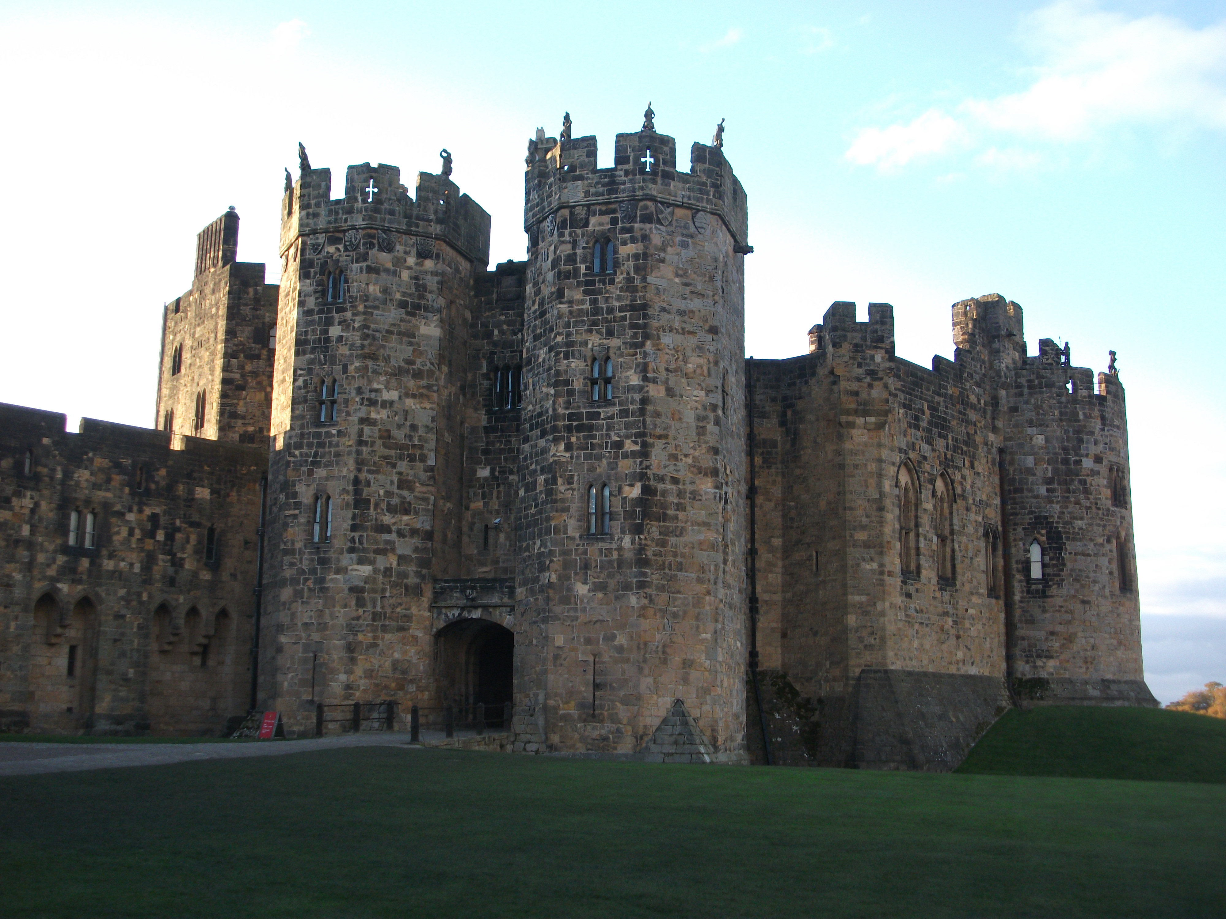 Alnwick Castle Wikidata has entry Q1320427 with data related to this item.